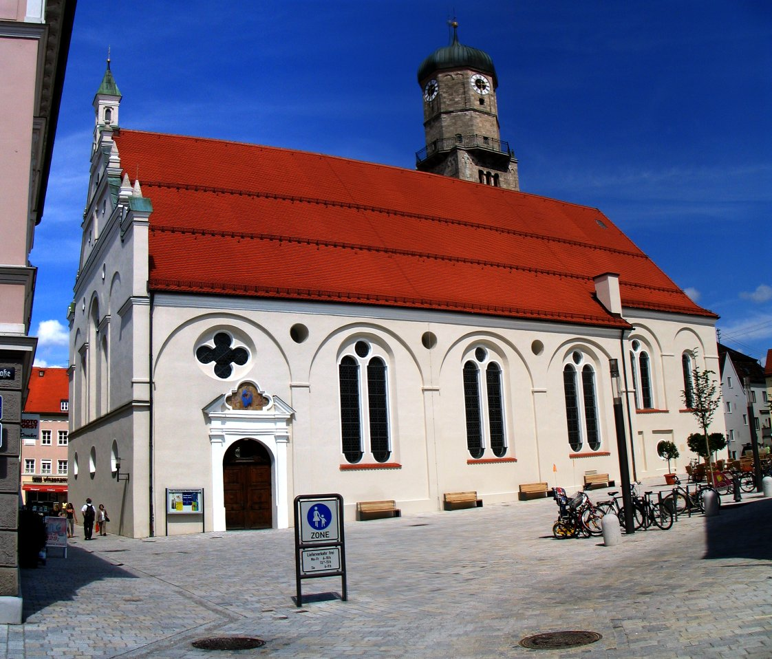 Parish church of the Assumption in Weilheim, Bavaria